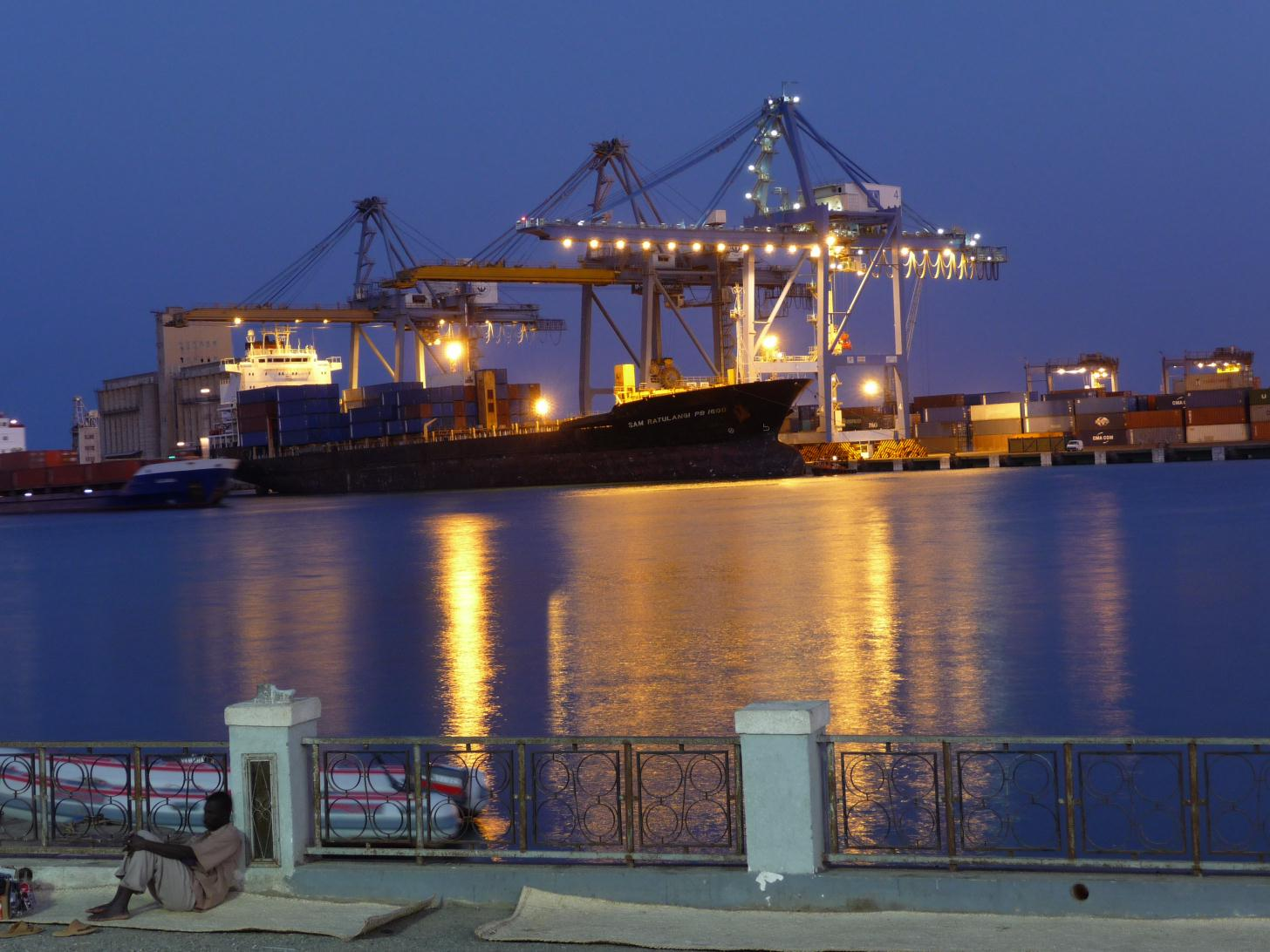 The SAM RATULANGI PB 1600 at the container Terminal of Port Sudan IMO Number: 9151981 MMSI Number: 525003026 Callsign: YCTJ Length: 177 m Beam: 28 m